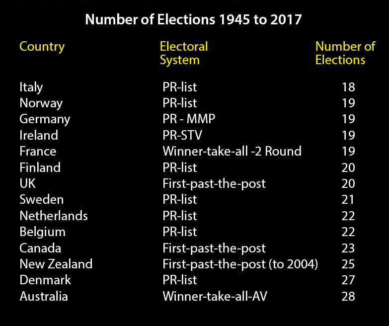 Coalition governments under PR do not seem to be less stable.